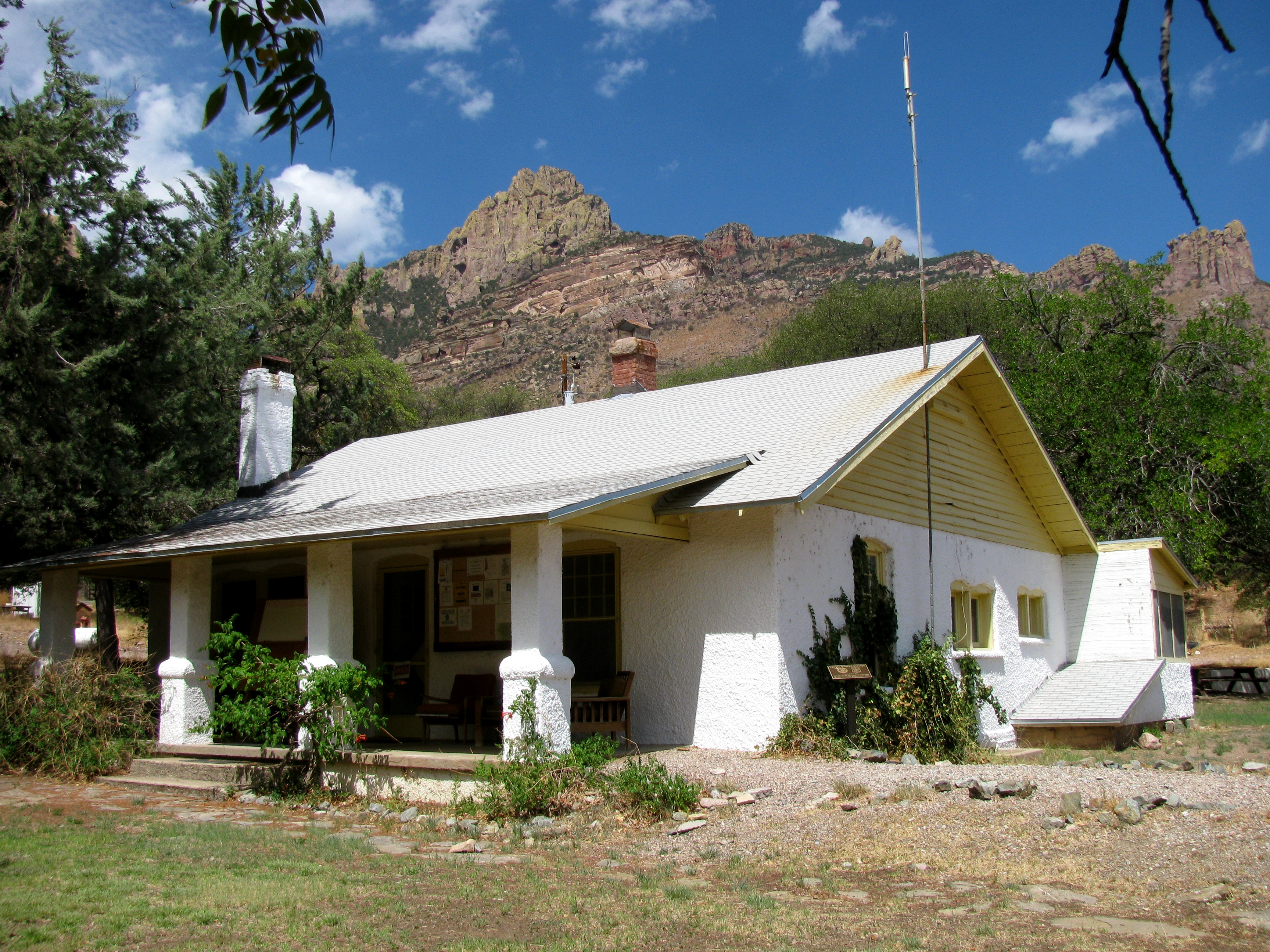 The Portal Ranger Station — located in Cave Creek Canyon of the Chiricahua Mountains, near Portal in southeastern Arizona. The 1934 CCC−Civilian Conservation Corps Craftsman style bungalow is in the Coronado National Forest, and on the National Register of Historic Places in Cochise County, Arizona.